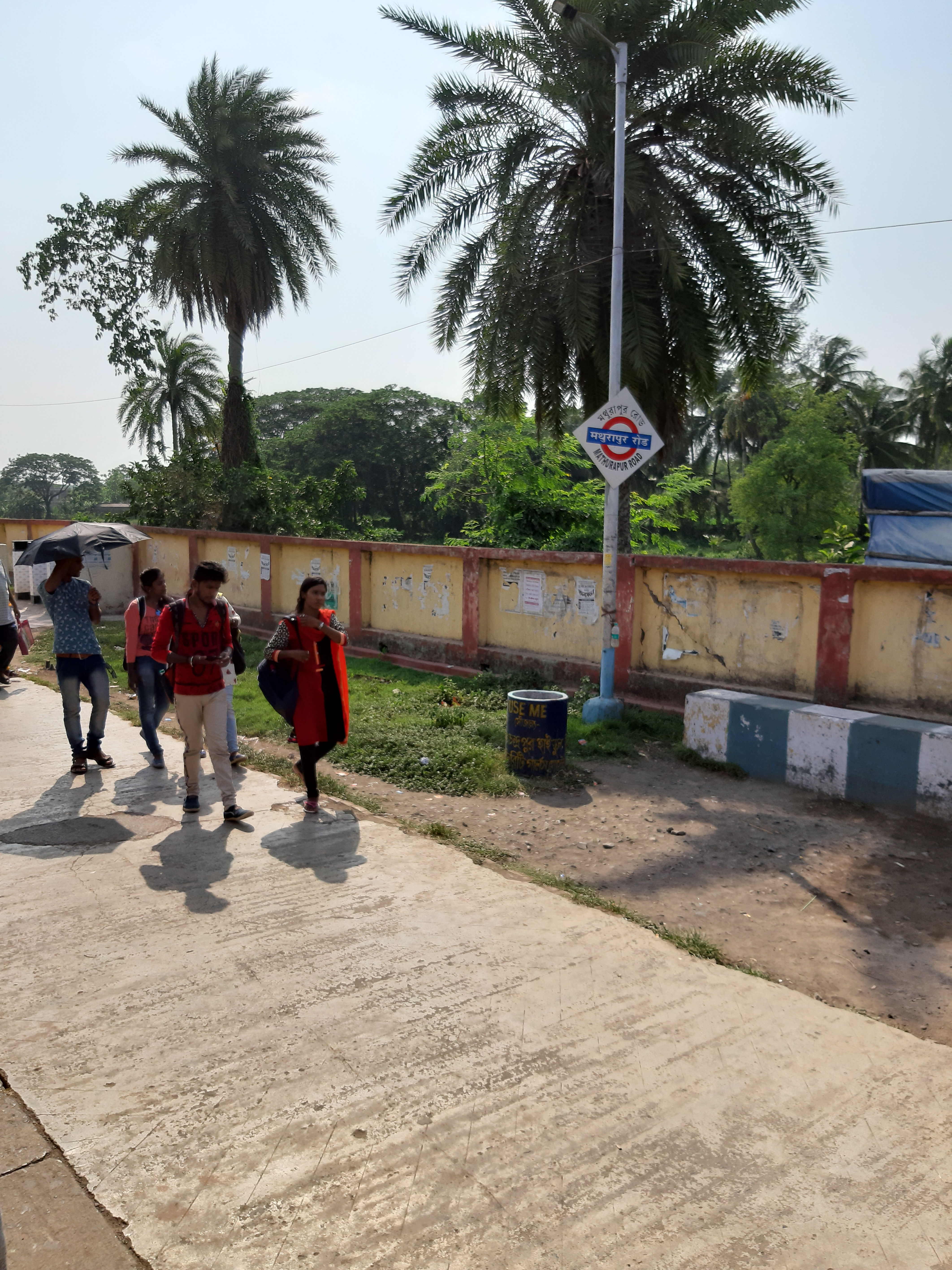 Mathurapur road railway station, baruipur to namkhana, south24parganas